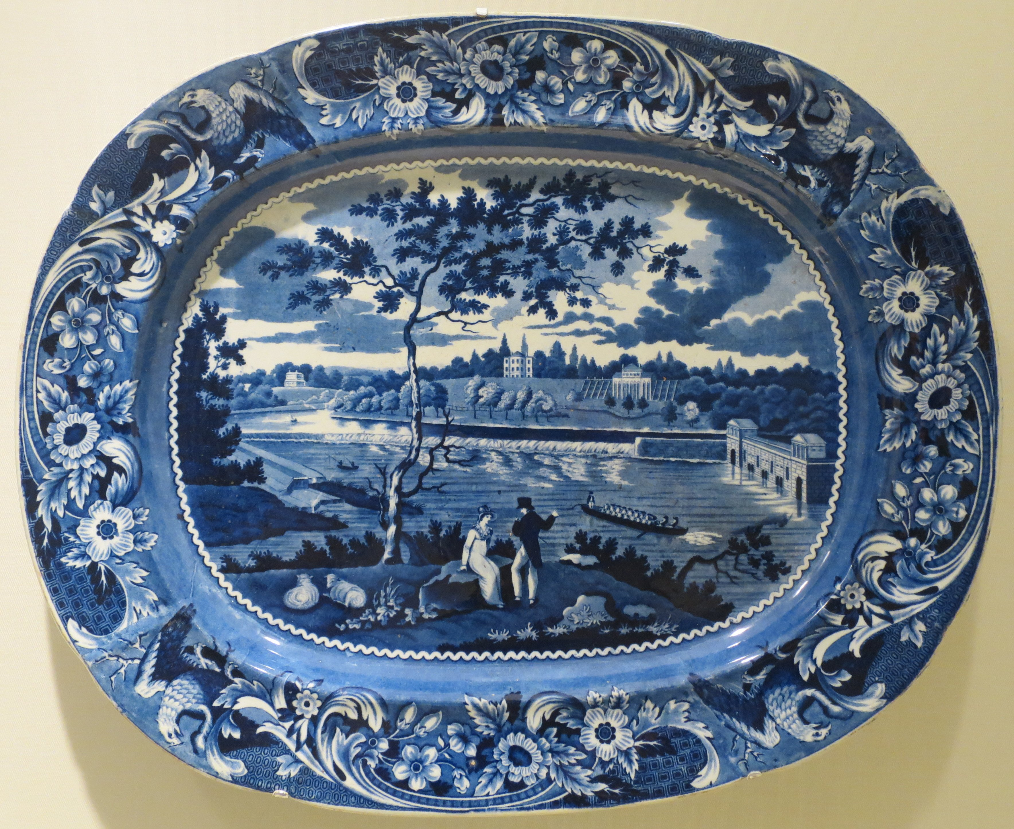 Platter with scene depicting 'Fair Mount near Philadelphia' manufactured by Joseph Stubbs, Staffordshire, England, c. 1820-50, glazed earthenware, Dayton Art Institute